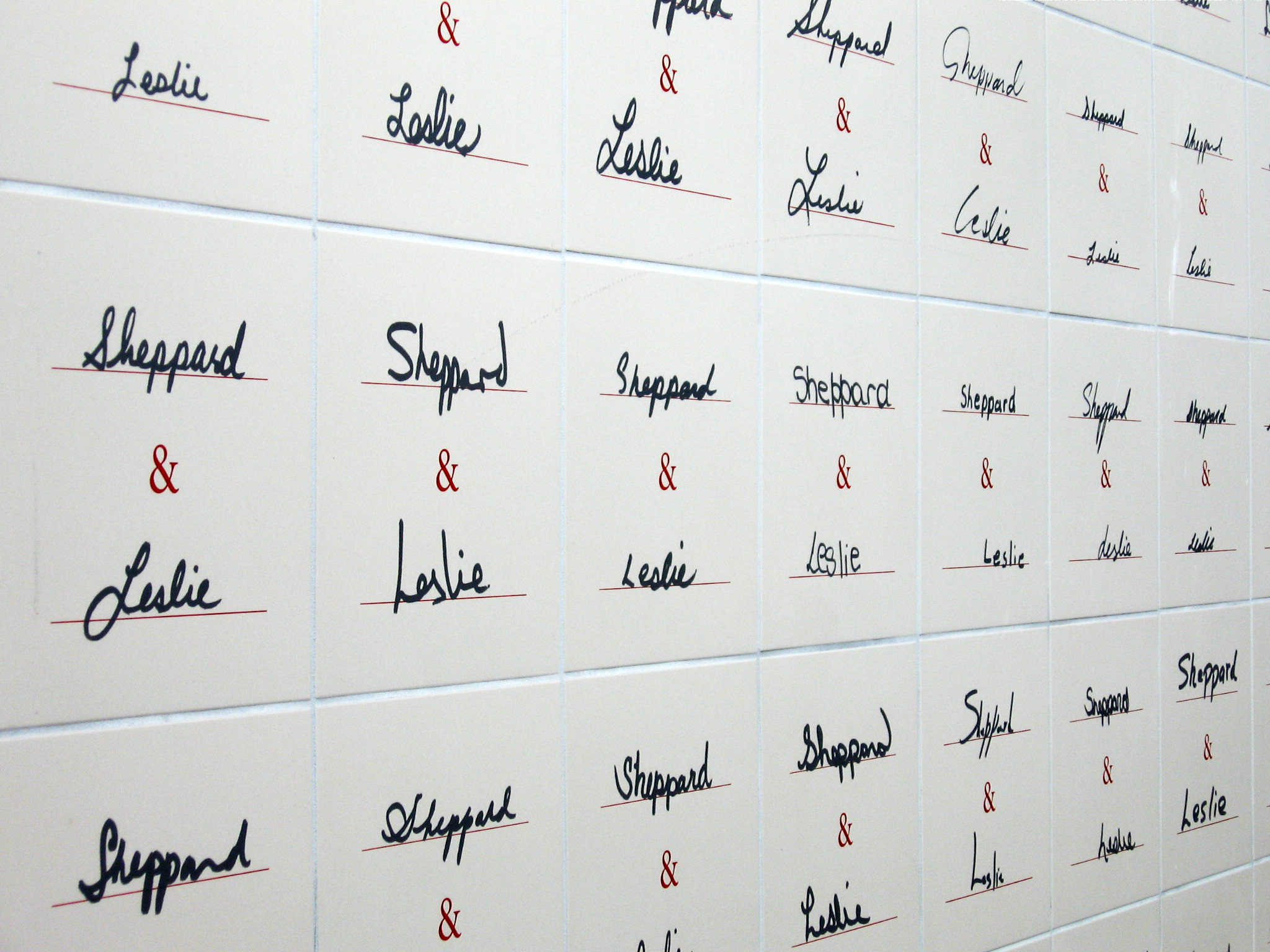 Wall tiles at the Leslie TTC subway station. Title of work: Ampersand, created by Micah Lexier.